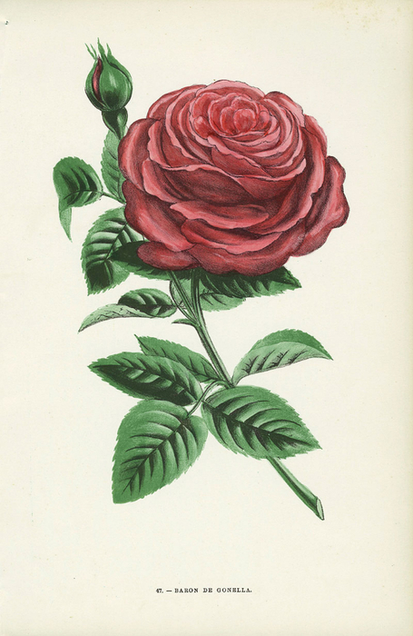 Rosa 'Baron J.B. Gonella'